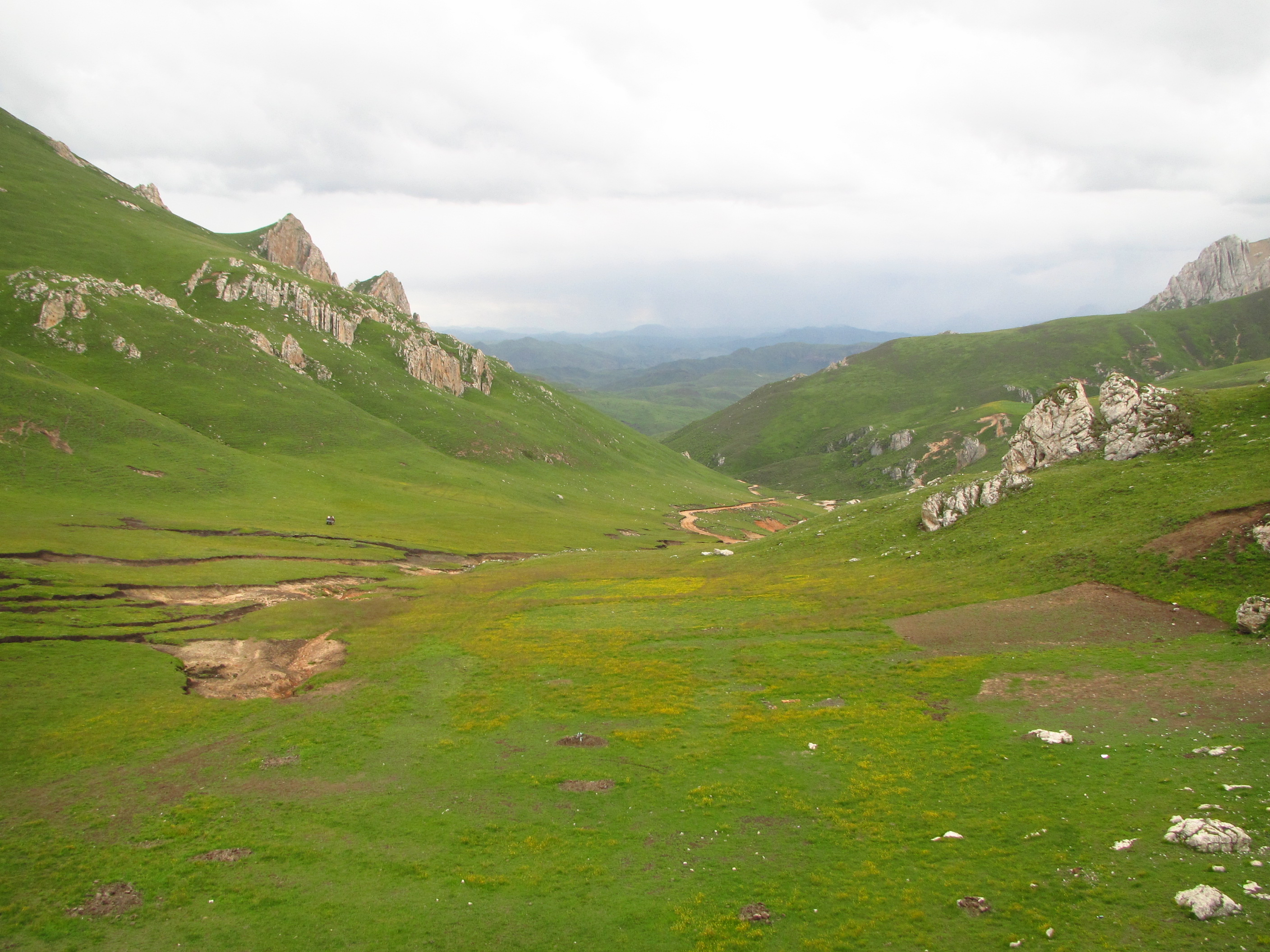 Southeast Tibet shrub and meadows ecoregion in Gansu, China